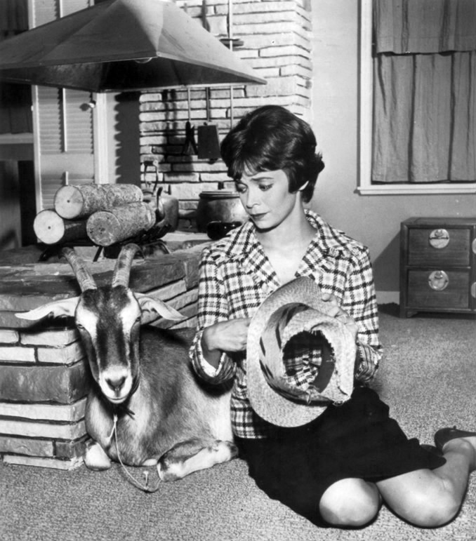 Publicity photo from the Angel television series, 1960. Pictured are Annie Fargue (Angel) and her wedding gift from Uncle Jacques, a goat.